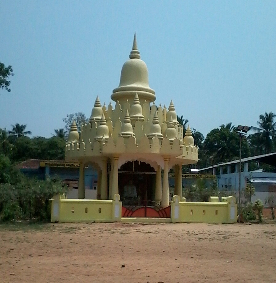 This Guru Mandir was built at palathara in kollam district of Kerala near to the Durga Devi Temple.The Kerala Renaissance leader Sree Narayana Guru is worshipped in this Mandir.